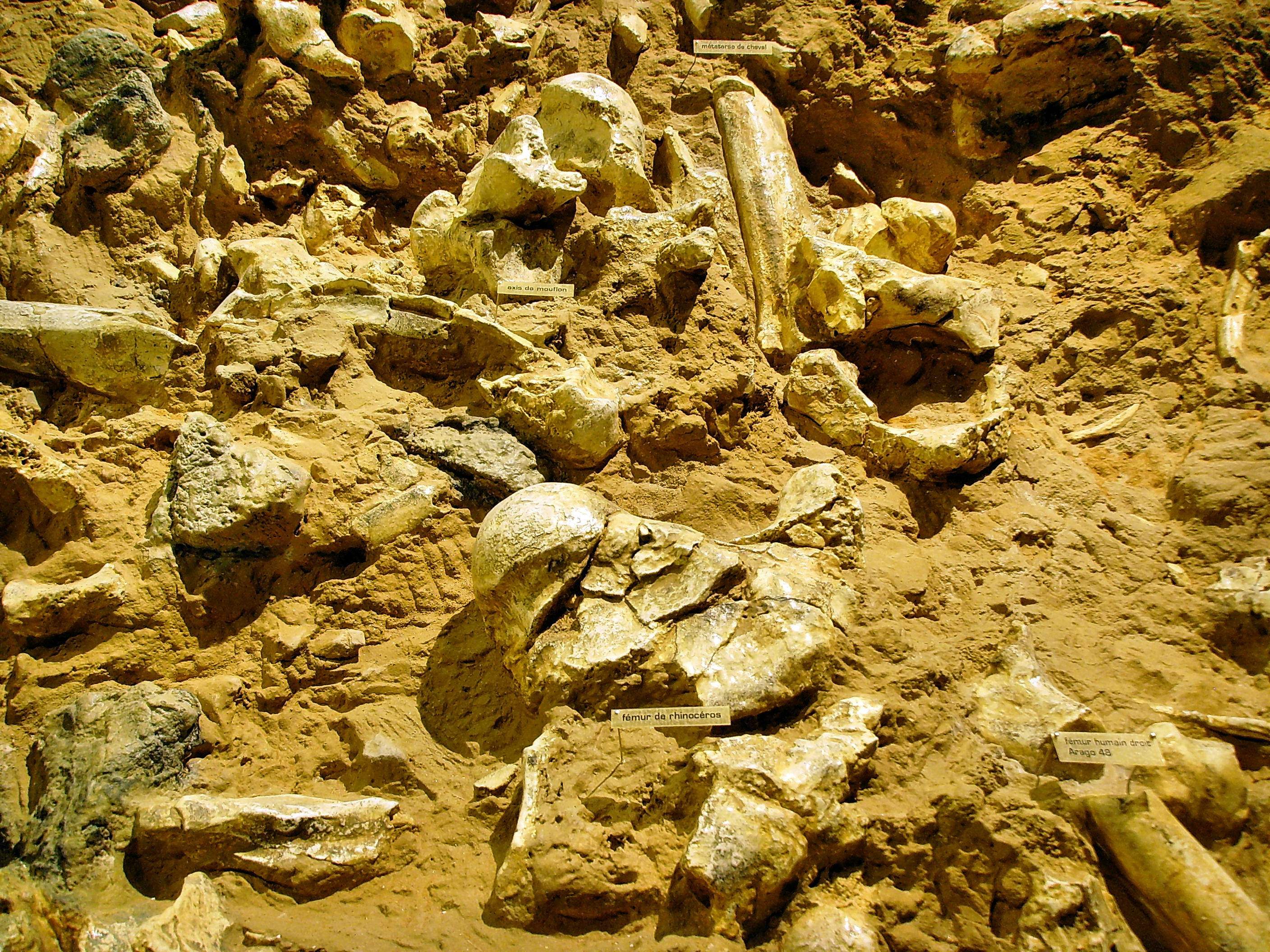 Arago-cave, near Tautavel (Perpignan-region), France: archaeological context of finds as displayed in the Musée de Préhistoire, Tautavel